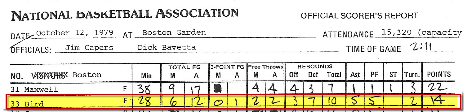 Larry Bird's first NBA regular season game statistics from the official scorer's report of a October 12, 1979 NBA game between the Houston Rockets and the Boston Celtics.